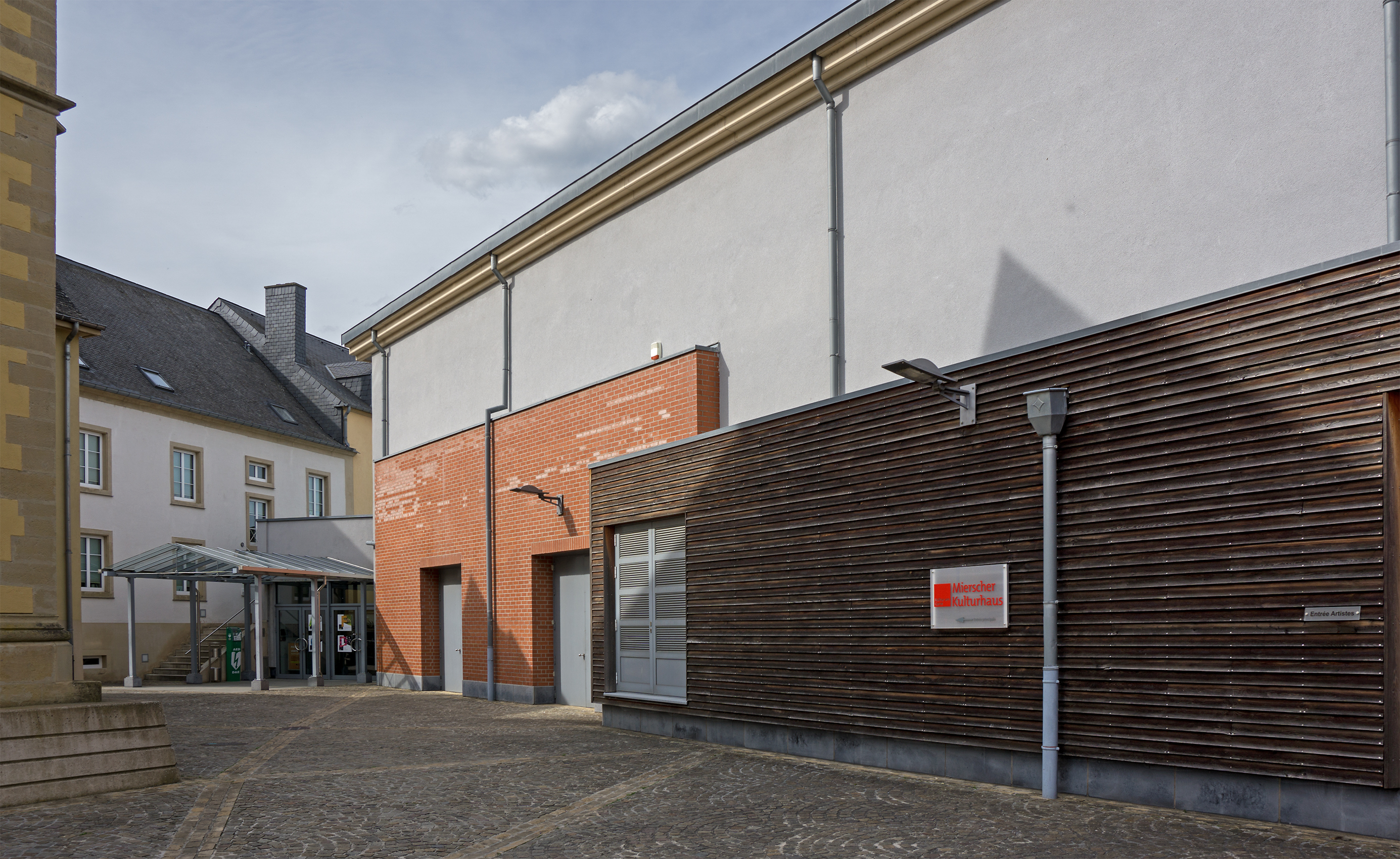 Cultural center of Mersch